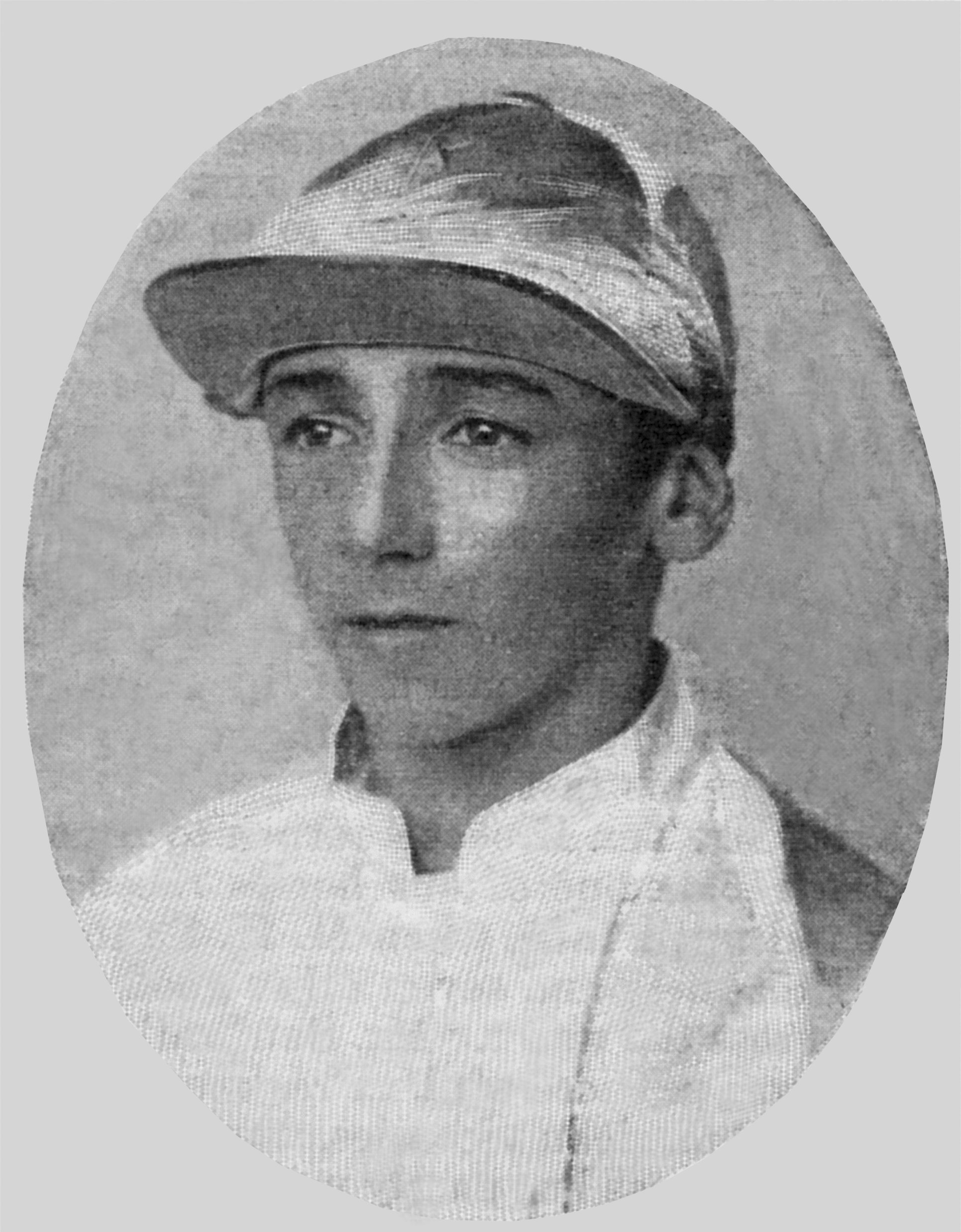 Photograph of American jockey Danny Maher from Munsey's Magazine, Volume XXIV, October 1900 - March 1901, page 359.